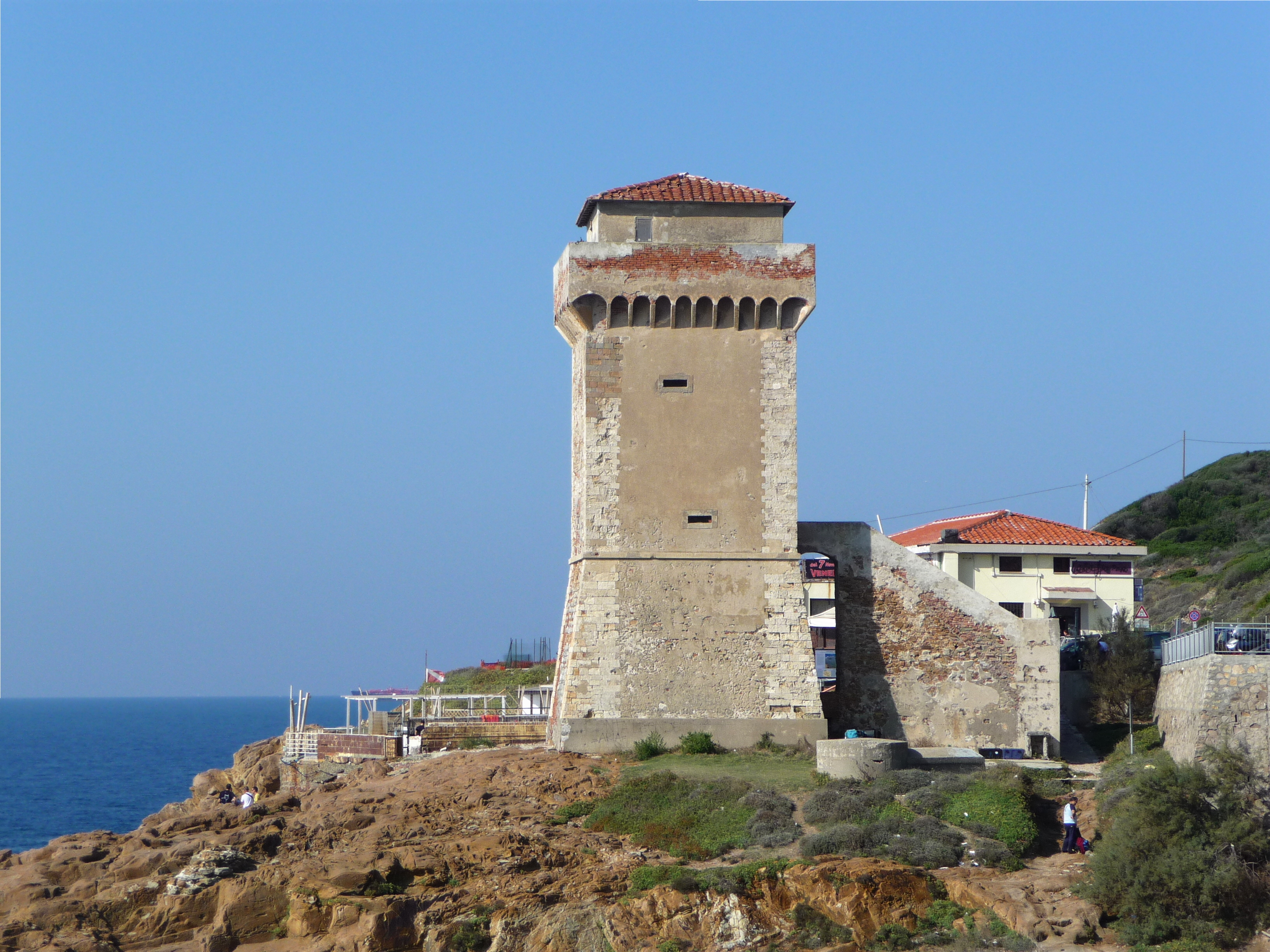 Torre di Calafuria, Livorno, Italy